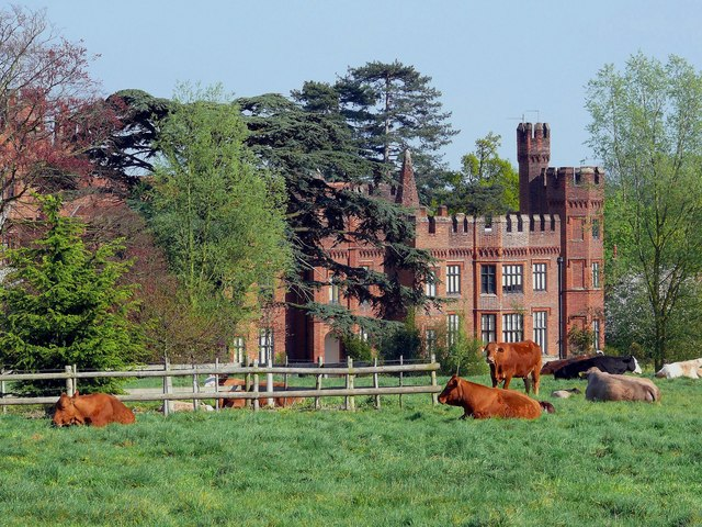 Faulkebourne Hall, Faulkebourne, Essex